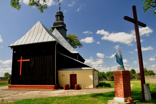 Saint Stanislaus church in Modzerowo